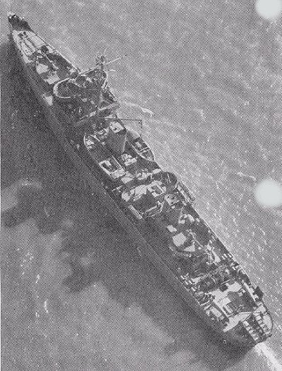 6 November 1942. U.S. Navy Photo